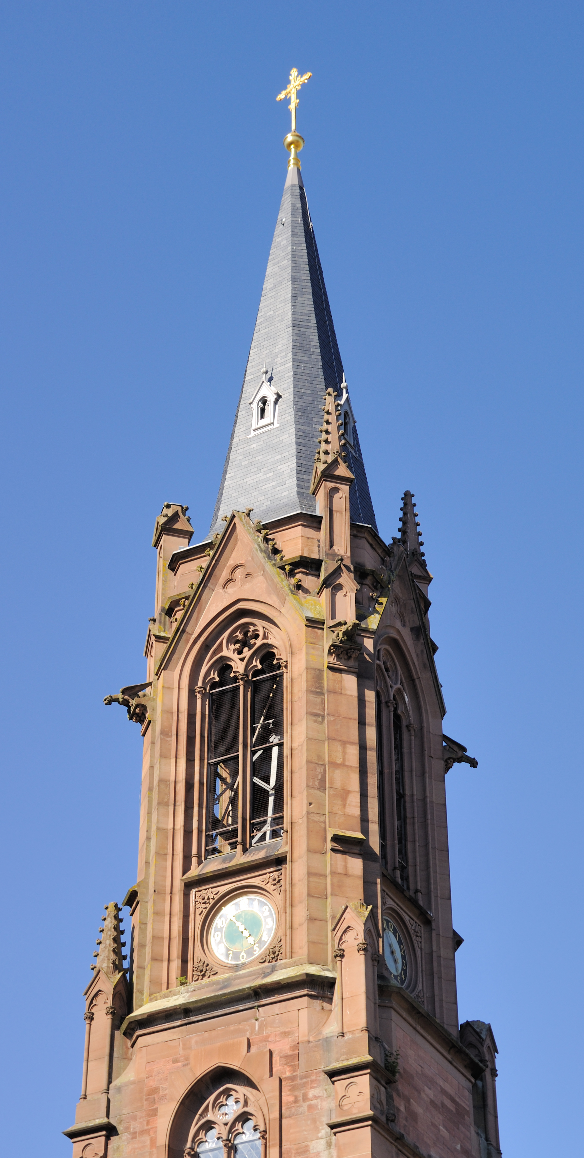 Schopfheim: Evangelical City Church